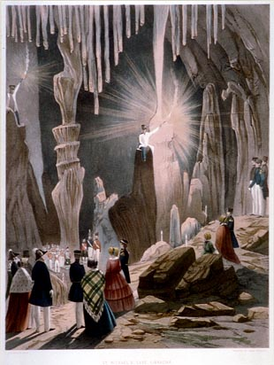 St. Michael's Cave, Gibraltar = Select Views of the Rock and Fortress of Gibraltar original by carter lithograph by dibdin